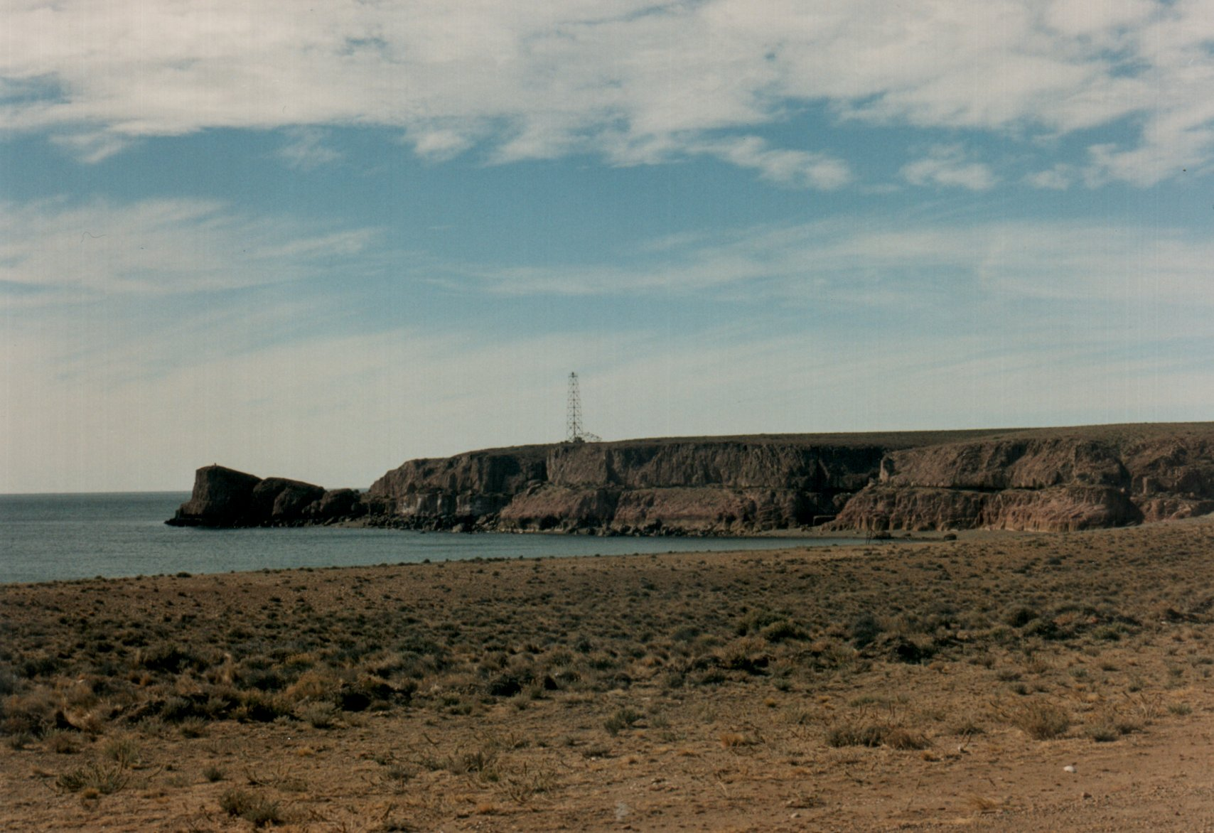 View from the north of Punta Mercedes (Mercedes Point) and Campana Lighthouse (january 1999)